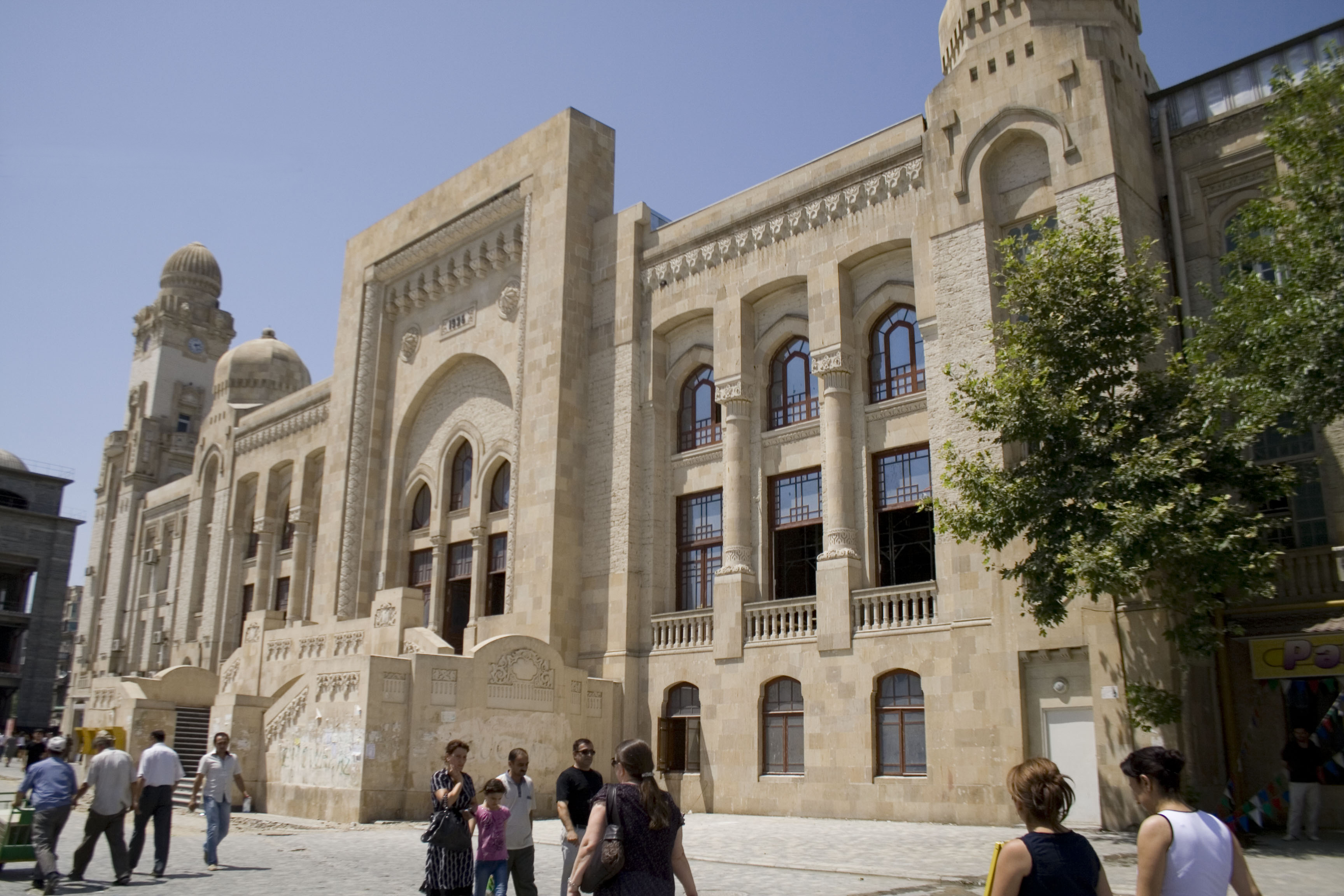 Baku train HQ